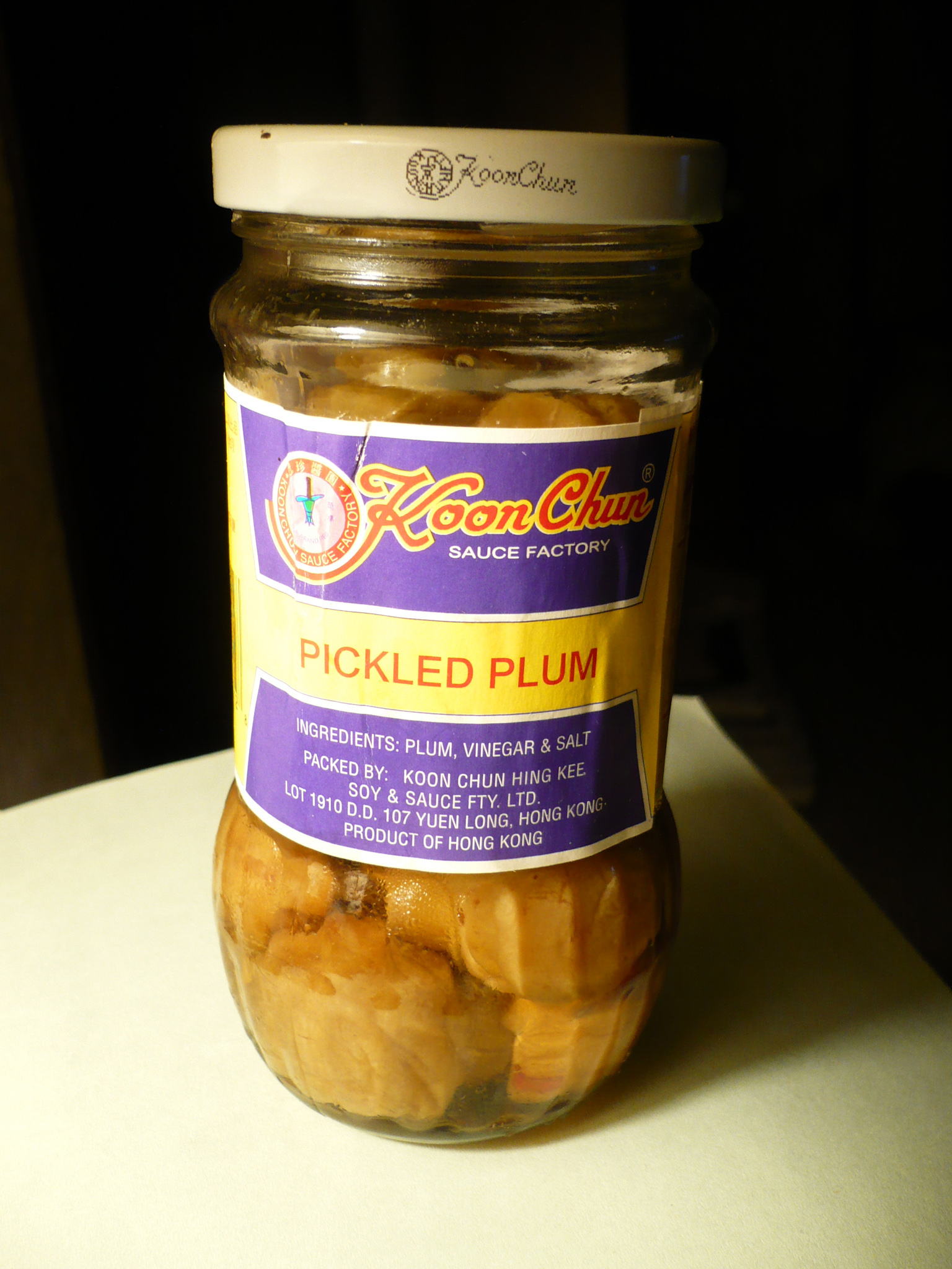 A bottle of commercially produced pickled Prunus mume fruits. Photo taken in Kent, Ohio with a Panasonic Lumix digital camera (model DMC-LS75). Persimmon vinegar purchased from a northeast Ohio-area Chinese grocery store. Pickled Prunus mume fruits (Koon Chun Sauce Factory brand) produced in Hong Kong.